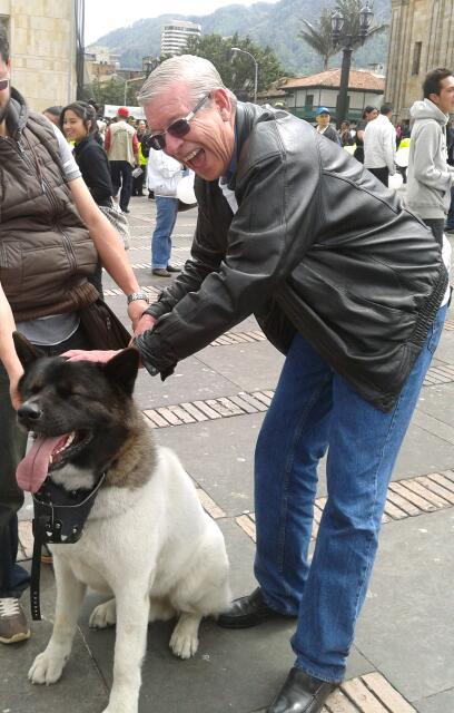 Yezid con perro